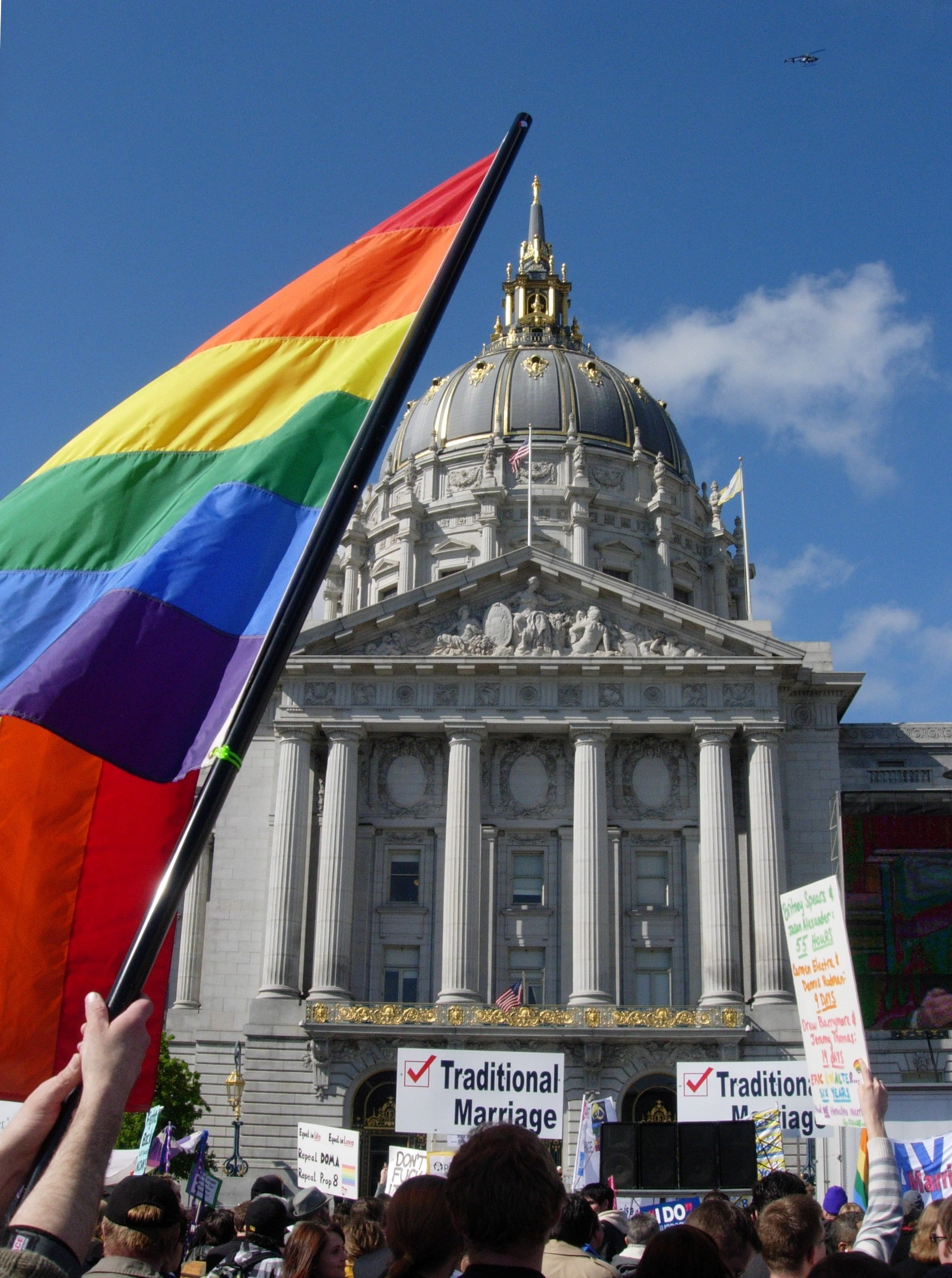 Pro and anti-Proposition 8 protesters rally in front of the San Francisco City Hall as the California Supreme Court holds a session in the to determine the definition of marriage (Strauss v. Horton cases).